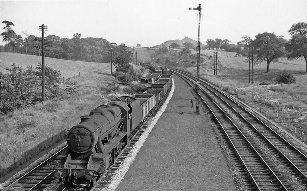 Down empties approaching Alfreton & South Normanton Station. View southward, towards Toton, Nottingham, Trent etc.; ex-Midland Erewash Valley main line. See SK4256 : Alfreton & South Normanton Station, with train for view in the opposite direction with the Station. Coal traffic was prodigious on this route while the North Midlands coalfield was fully active back in 1961: this Down empties (with Stanier 8F 2-8-0 No. 48176) is passing an Up loaded train on the other Slow line. The tip at Coates Park Colliery is prominent in the background